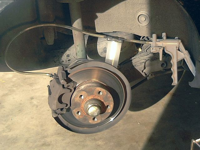 My picture of vacuum bleeding the brake system